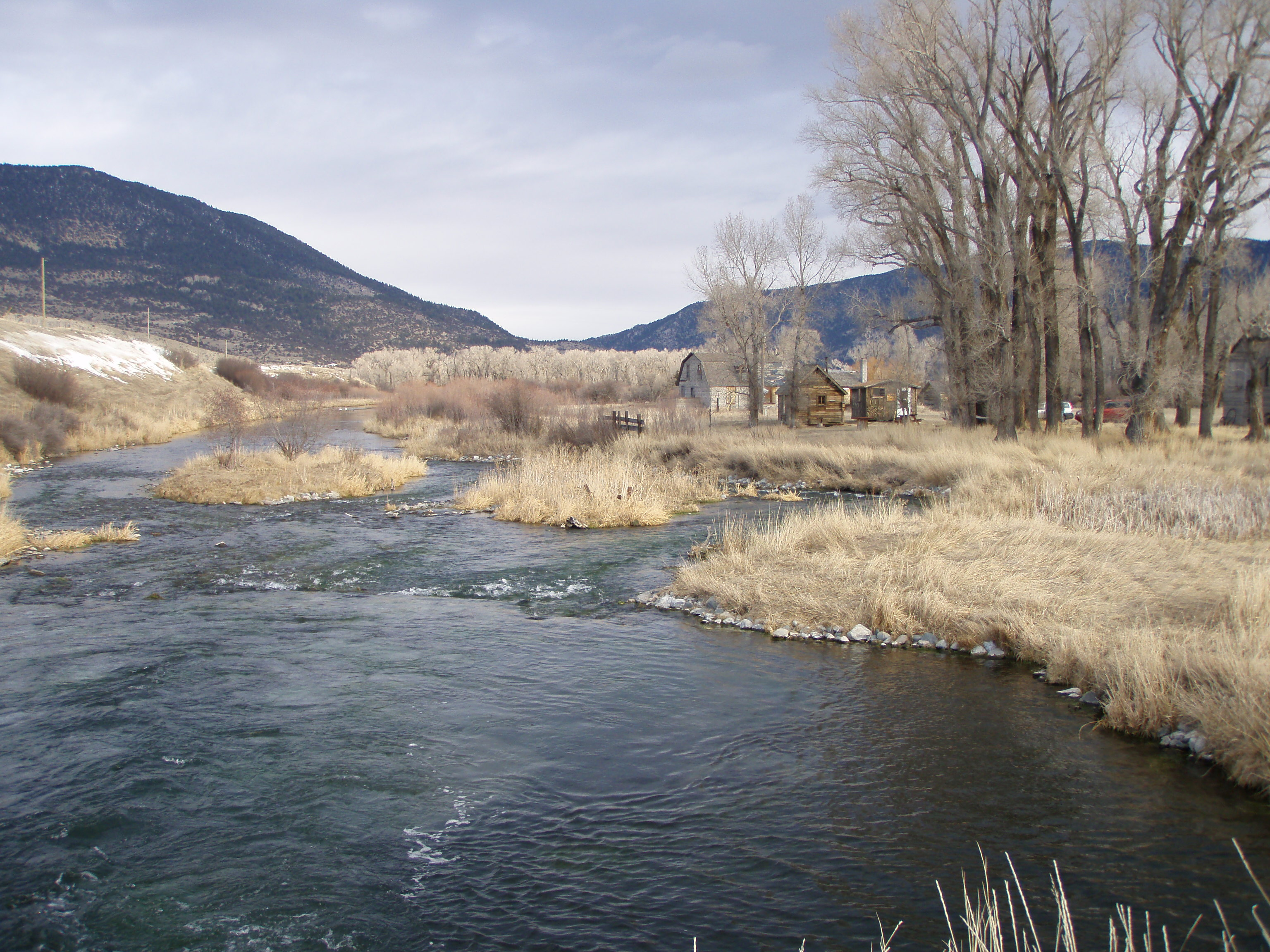 Upper Section Dupuy Spring Creek, Livingston, MT, January, 2008